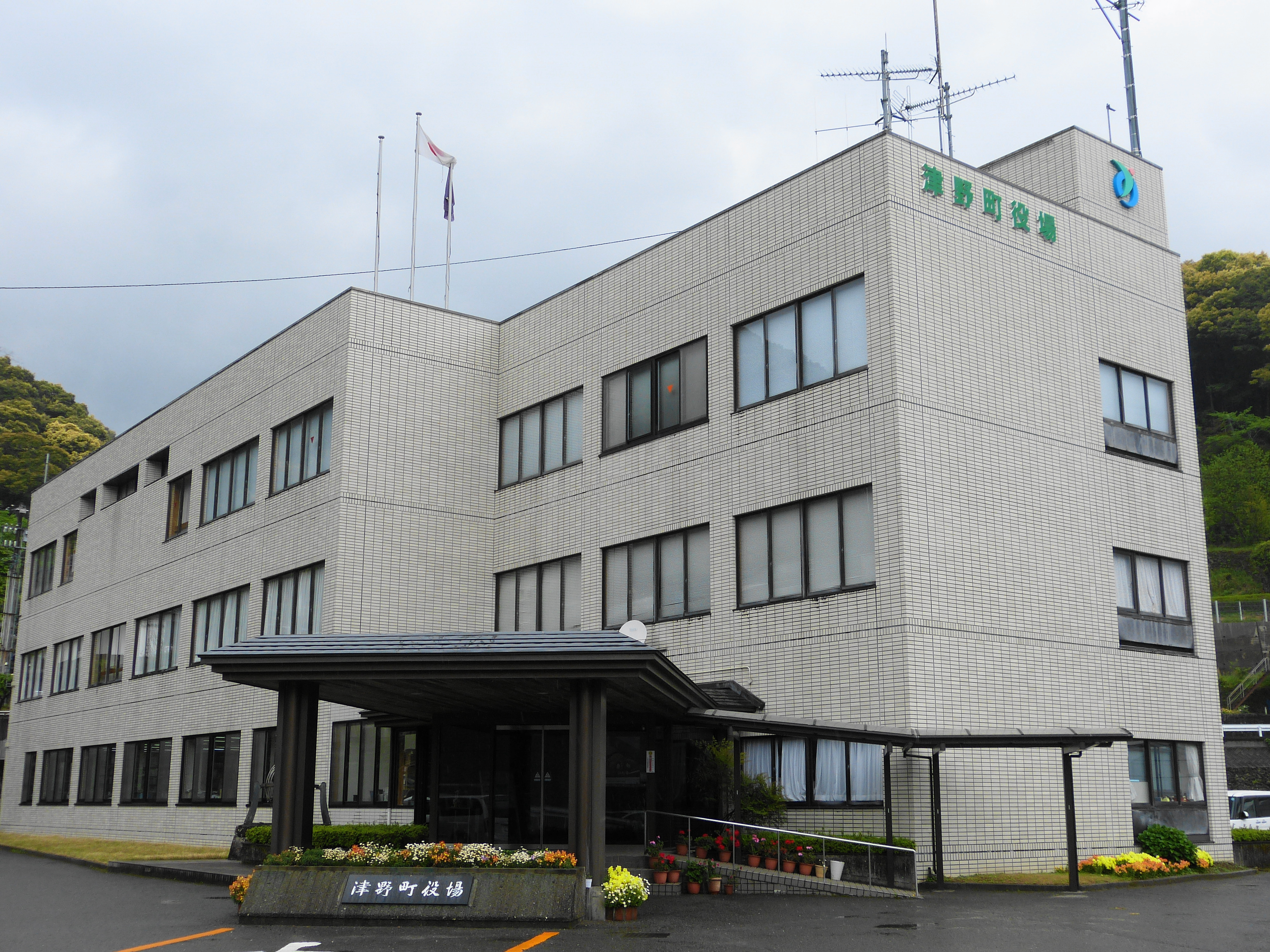 Tsuno town hall,Kochi prefecture,Japan